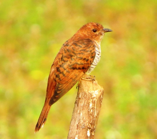 photo from "Kayyur" Ksaragod District,Kerala State , India